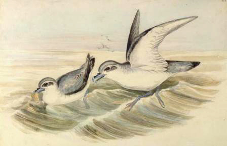 Tītīwainui or Fairy Prion, Pachyptila turtur. Also known as Narrow-billed prion